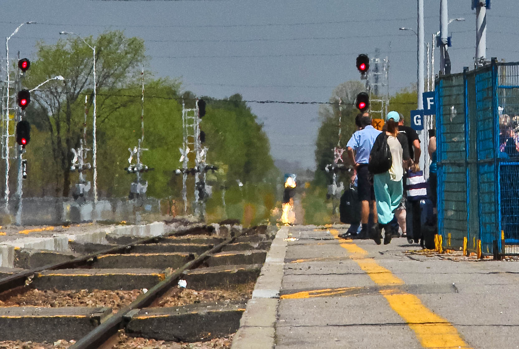 Fallowfield, Ontario railway station